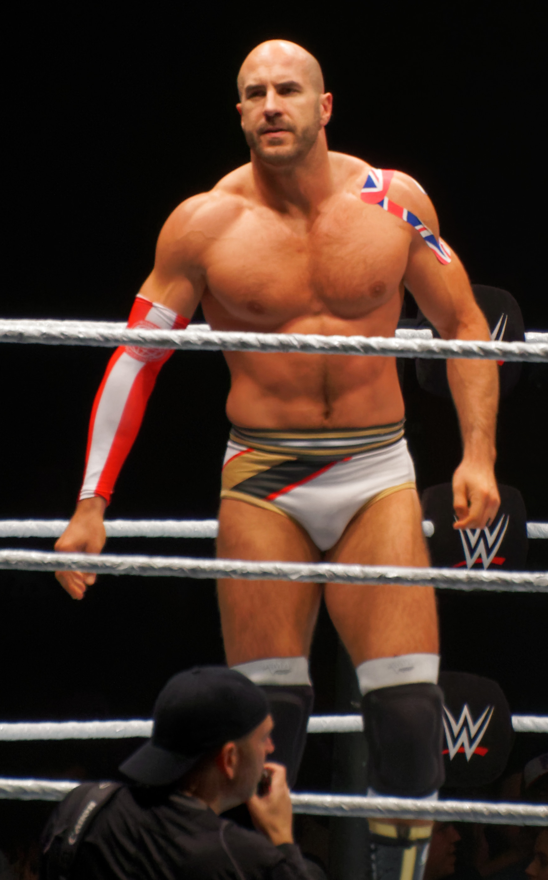 Cesaro in September 2016